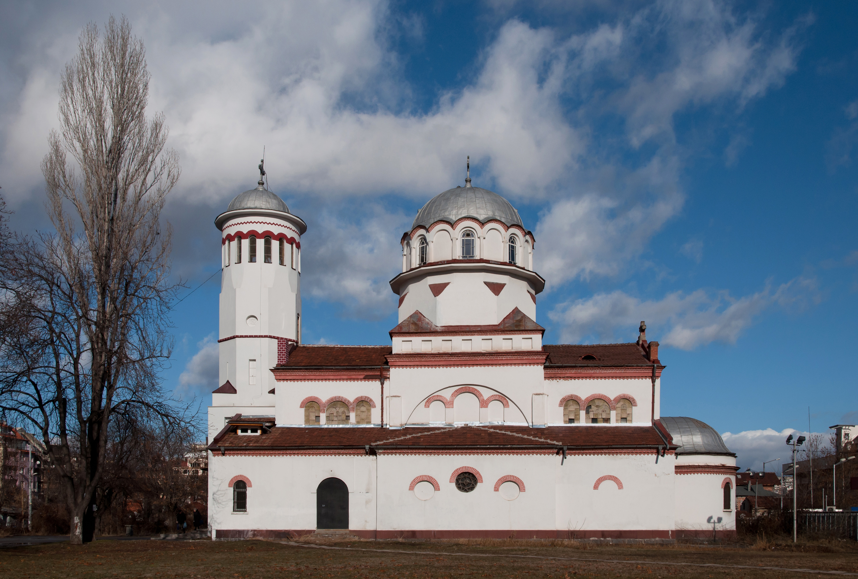 Saints Apostles Peter and Paul Church in Sofia, Bulgaria.